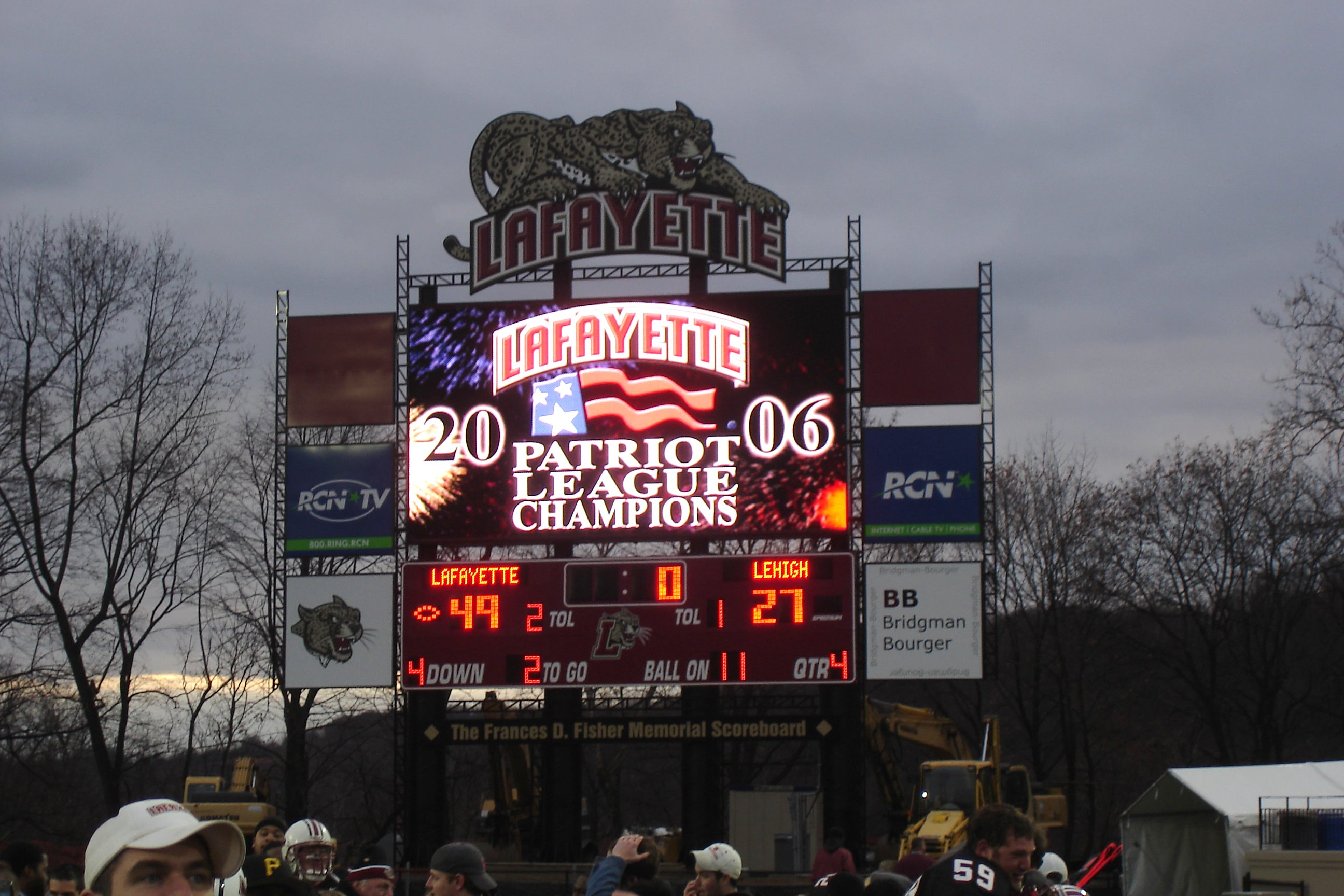 Lafayette College wins the Patriot League for the 3rd straight year after downing Lehigh University 49-27 at Fisher Stadium.